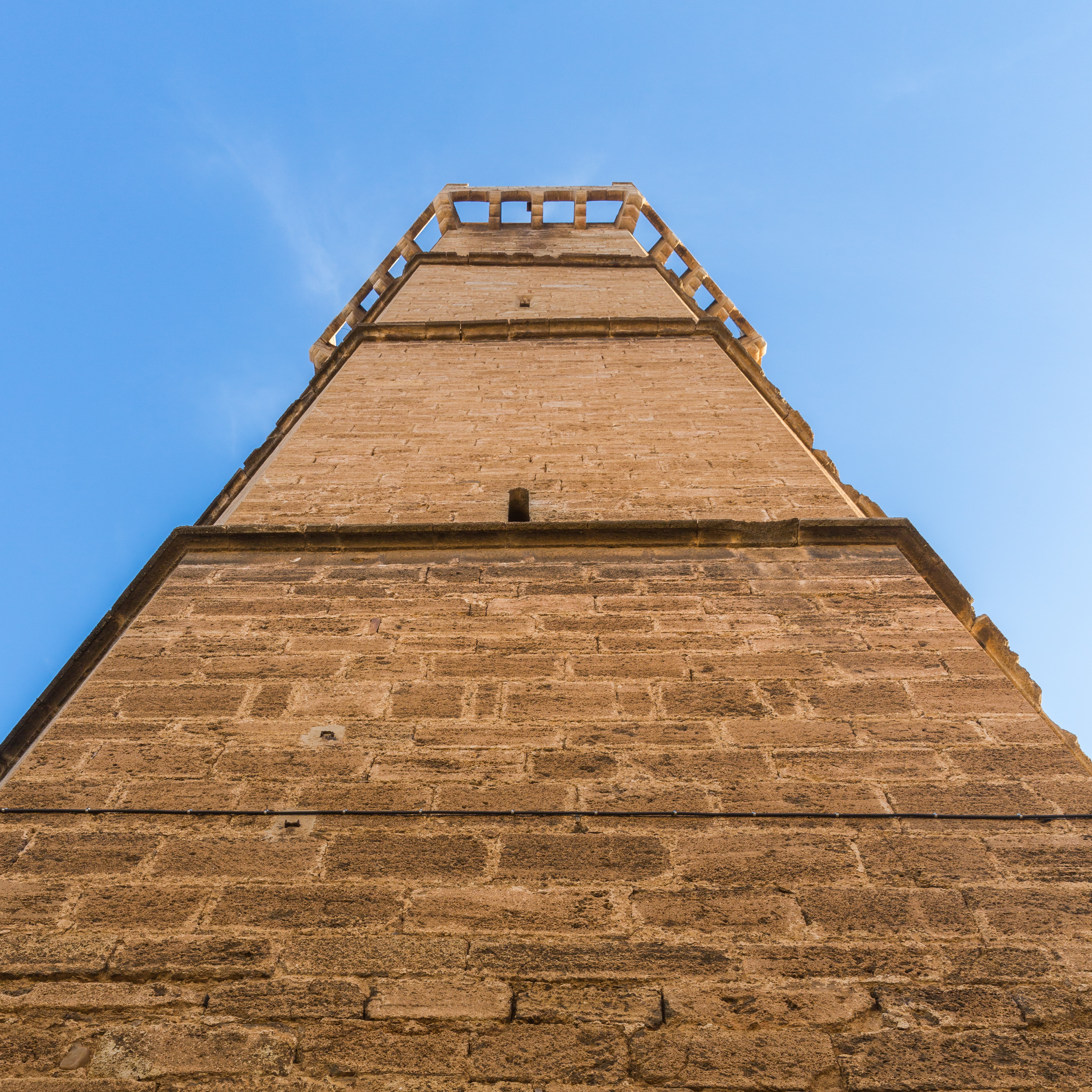 Church of the Assumption, Cariñena, Spain